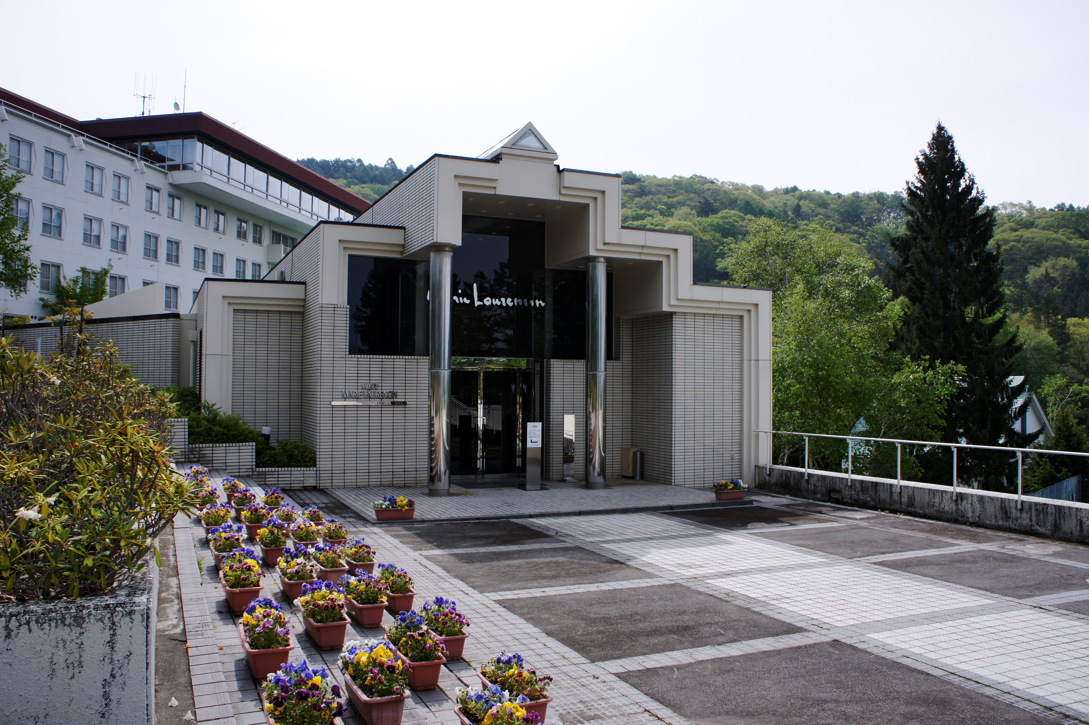 Musée Marie Laurencin in Chino, Nagano prefecture, Japan